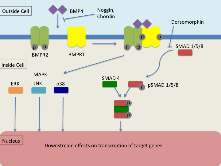 BMP4 uses 2 pathways to induce intracellular signalling known as the Smad and MAPK pathways.